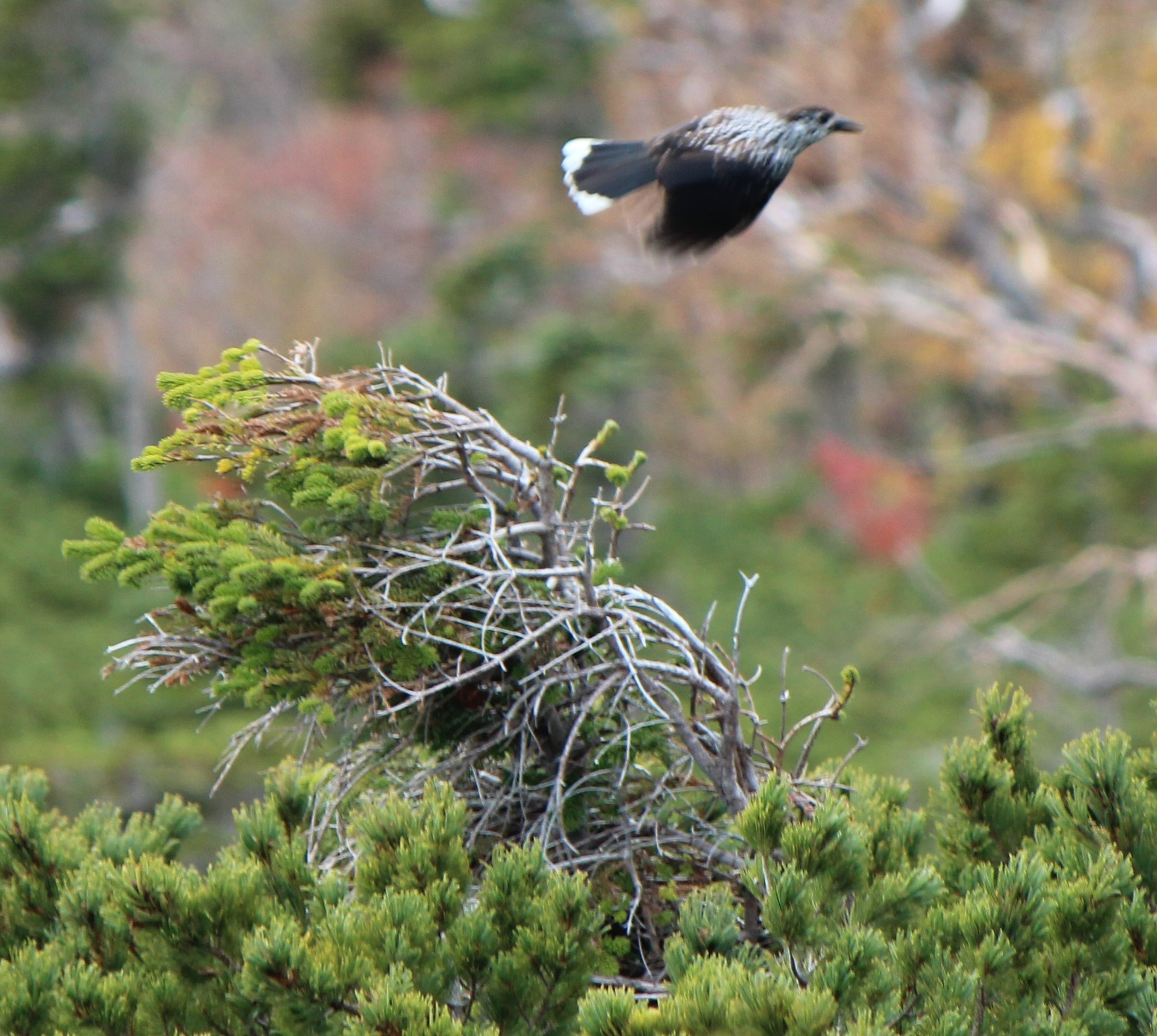 Pinus pumila (Siberian Dwarf Pine) and Nucifraga caryocatactes japonica (Spotted Nutcracker) in flight, in Mount Ontake, Japan.